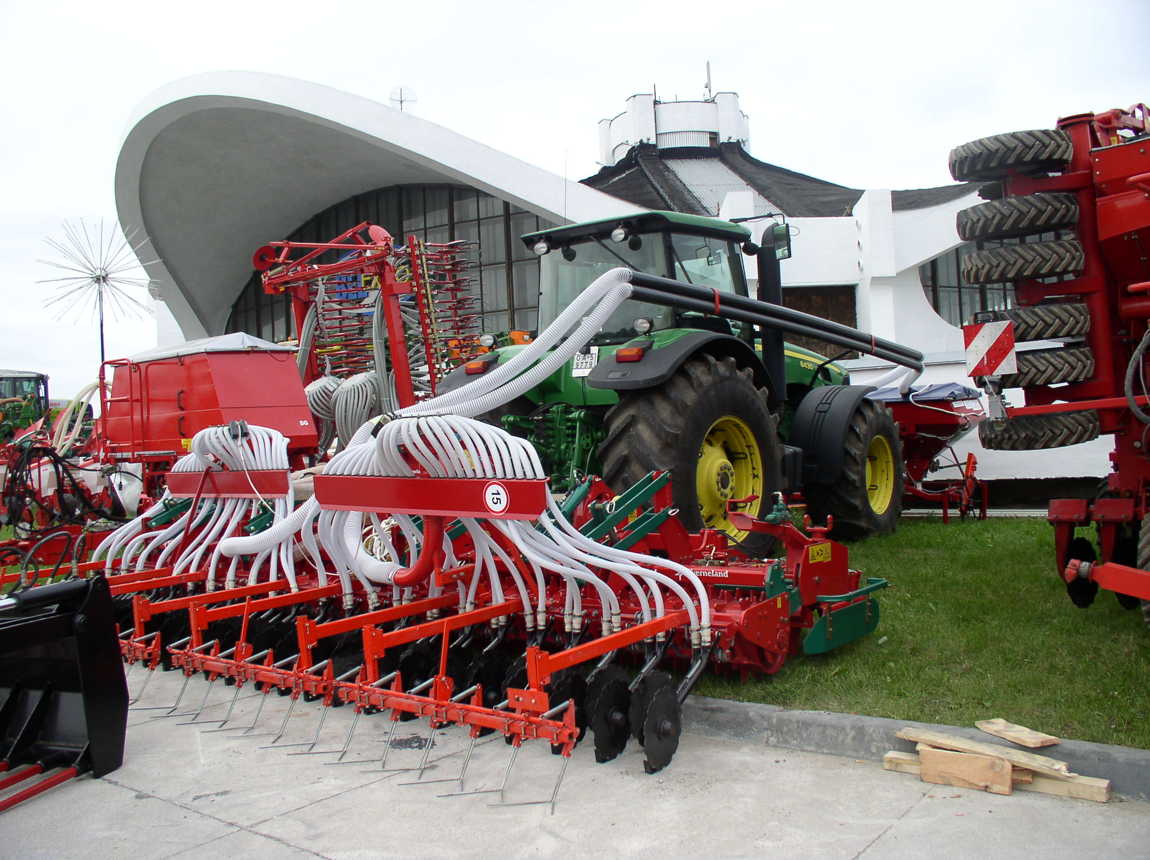 John Deere 8430 and pneumatic seed drill Kverneland Accord DF-2 (with front hopper), Agriculture Expo in Minsk, Belarus.